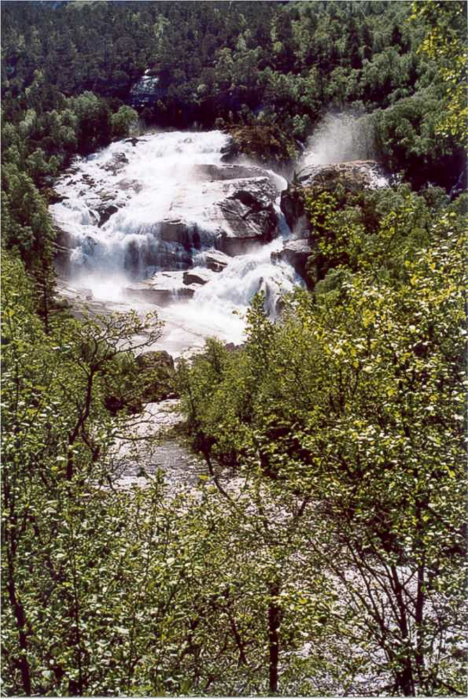 Tveitafossen